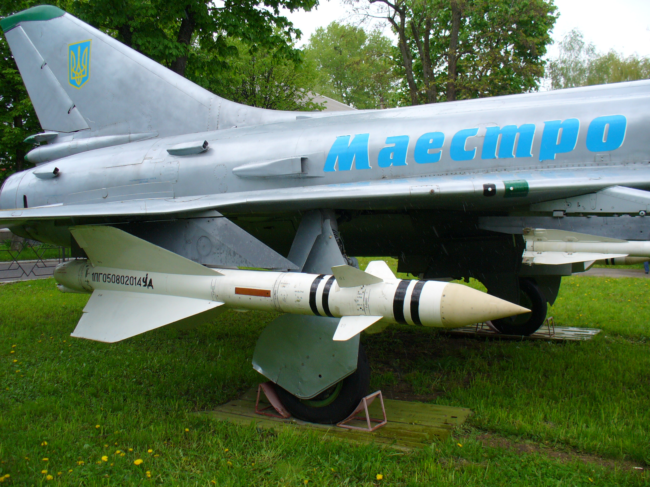 The Sukhoi Su-15TM (NATO reporting name "Flagon-F"), a Soviet interceptor aircraft. Has personal names "Leonid Bykov" and "Maestro" in memory of the Soviet actor Leonid Bykov. Ukrainian Air Force Museum in Vinnitsa.